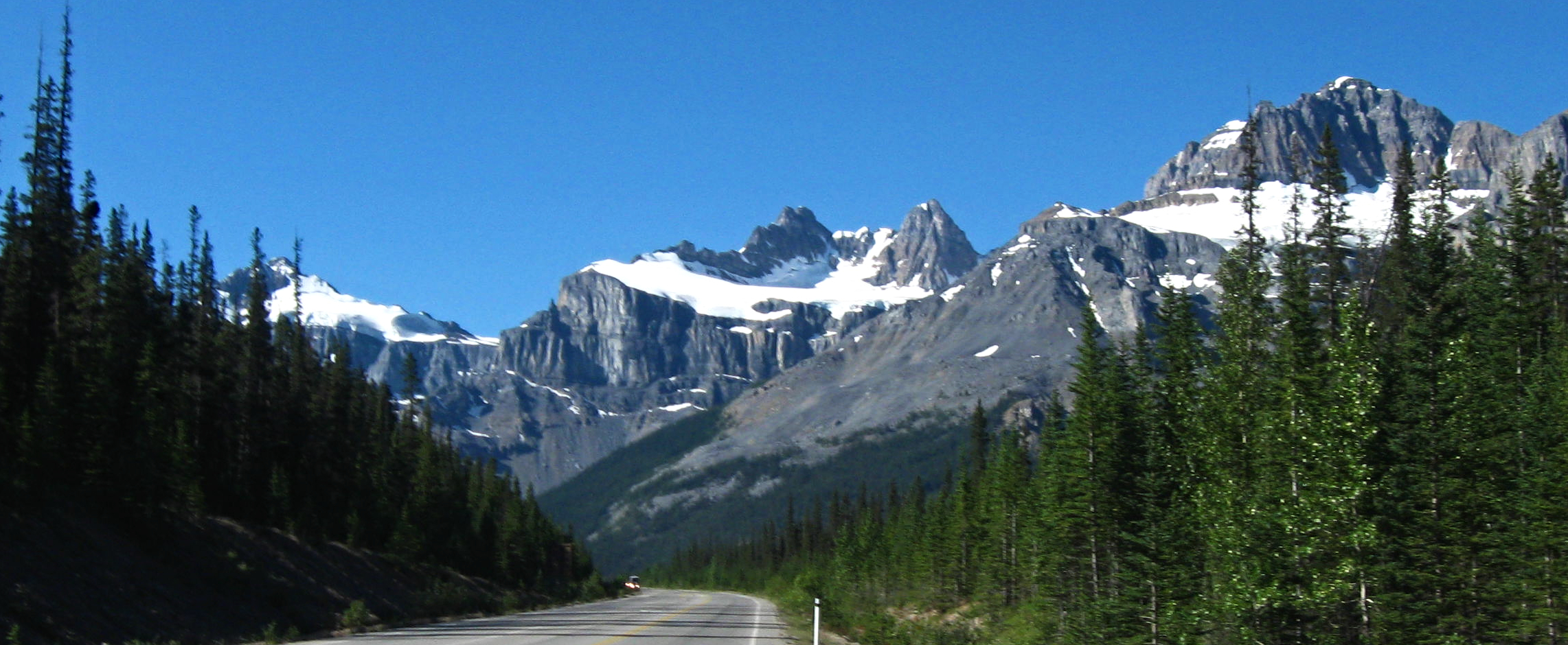 Kaufmann Peaks seen from Icefields Parkway, Banff National Park